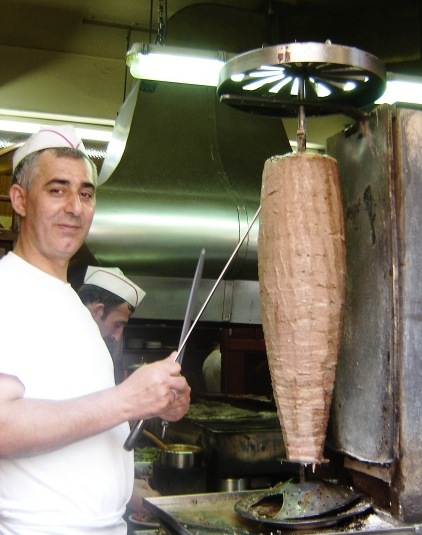 A "Döner Ustası" (Döner Master Craftsman) in Bursa, Turkey pictured by Hakkı Arıkan